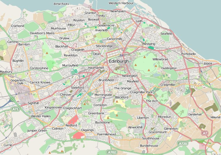 This map may be incomplete, and may contain errors. Don't rely solely on it for navigation.